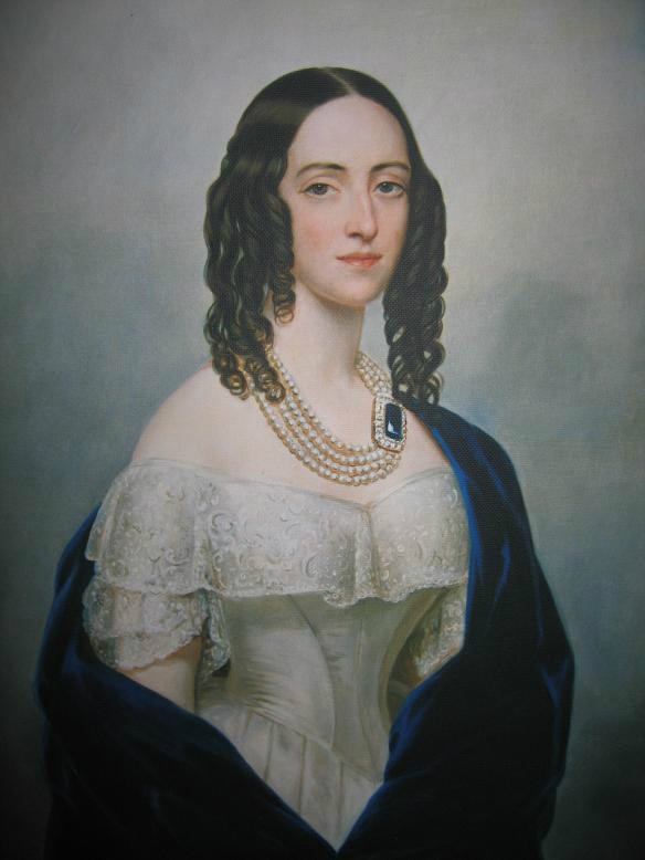 Theresia Oldenburg, nee Nassau (1815-1871)